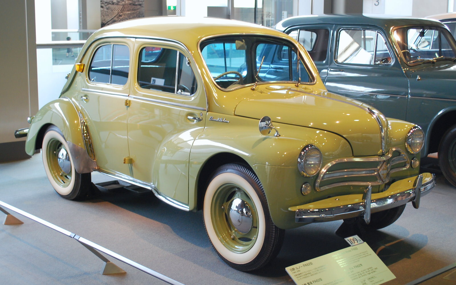 Hino_Renault Model PA62